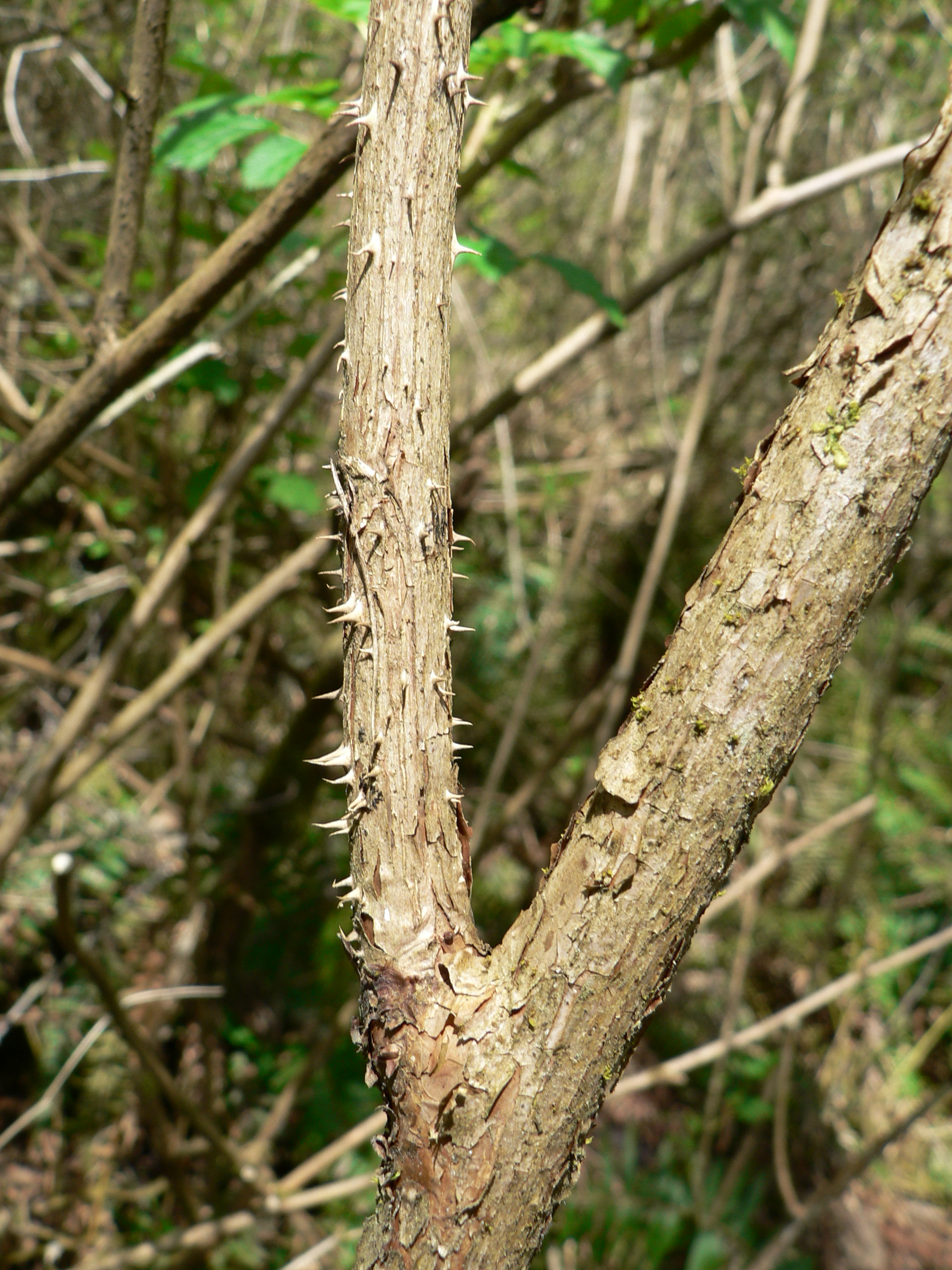 Salmonberry